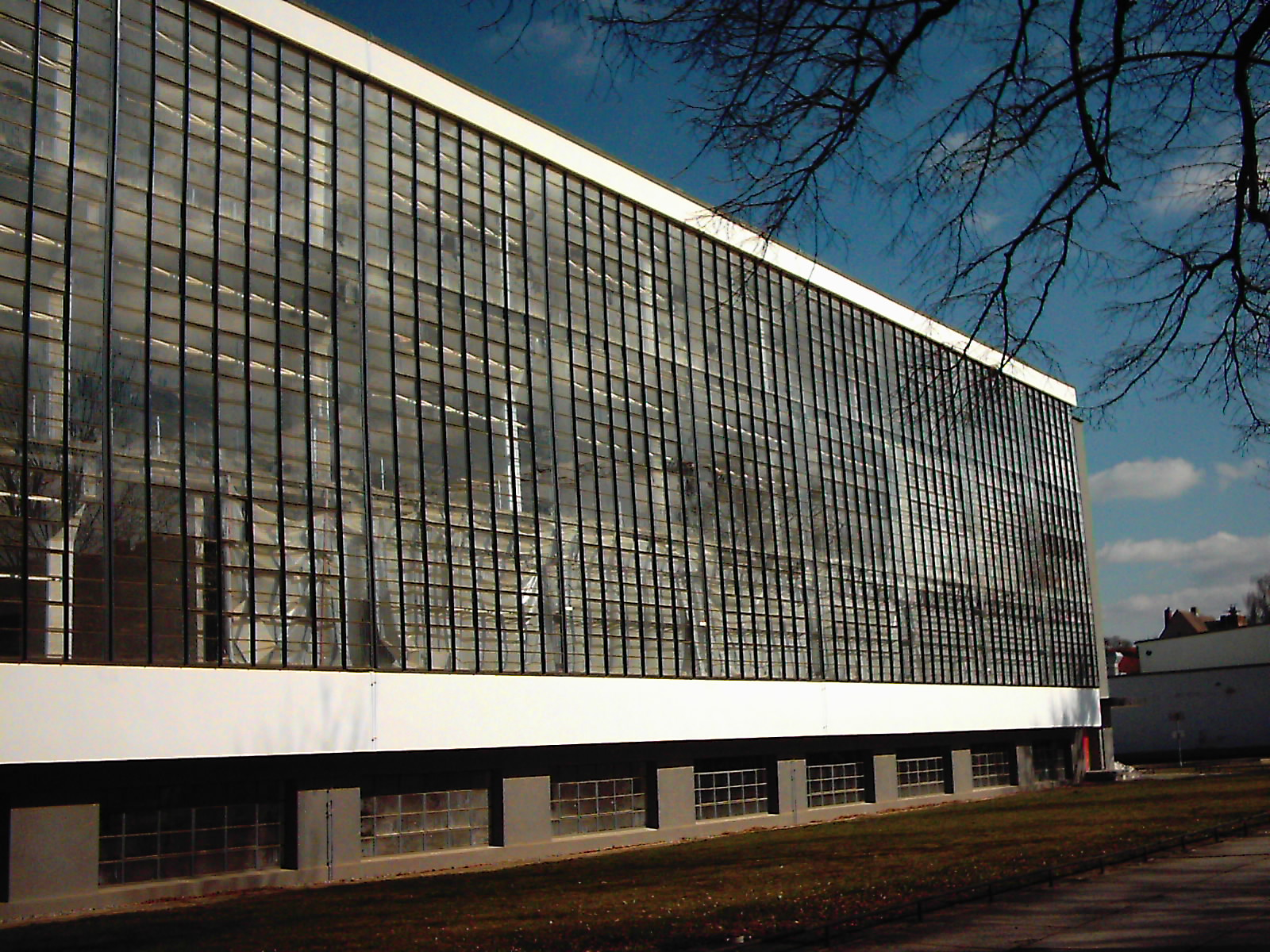 Bauhaus in Dessau